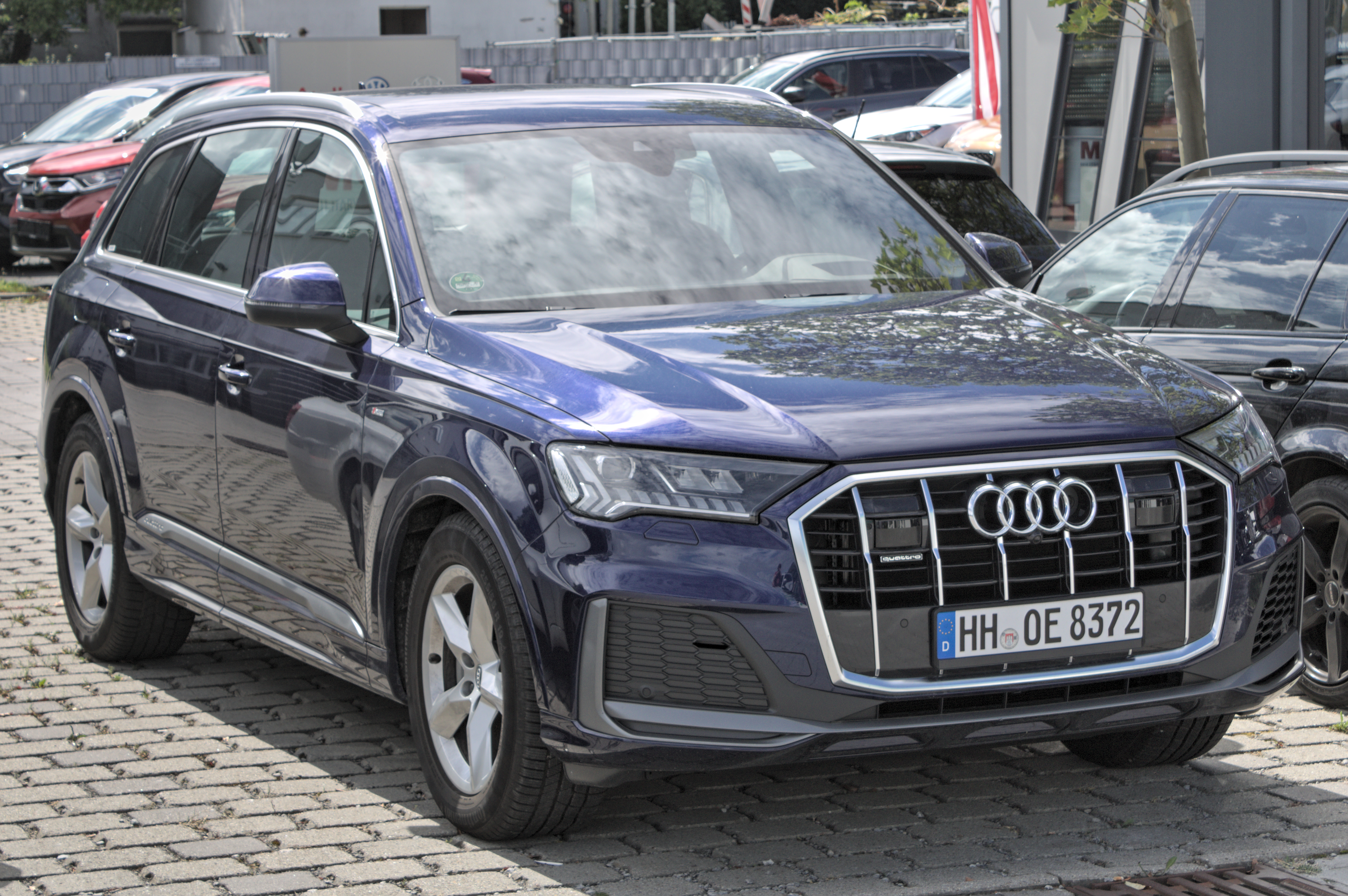 Audi_Q7_(4M)_FL in Stuttgart-Vaihingen